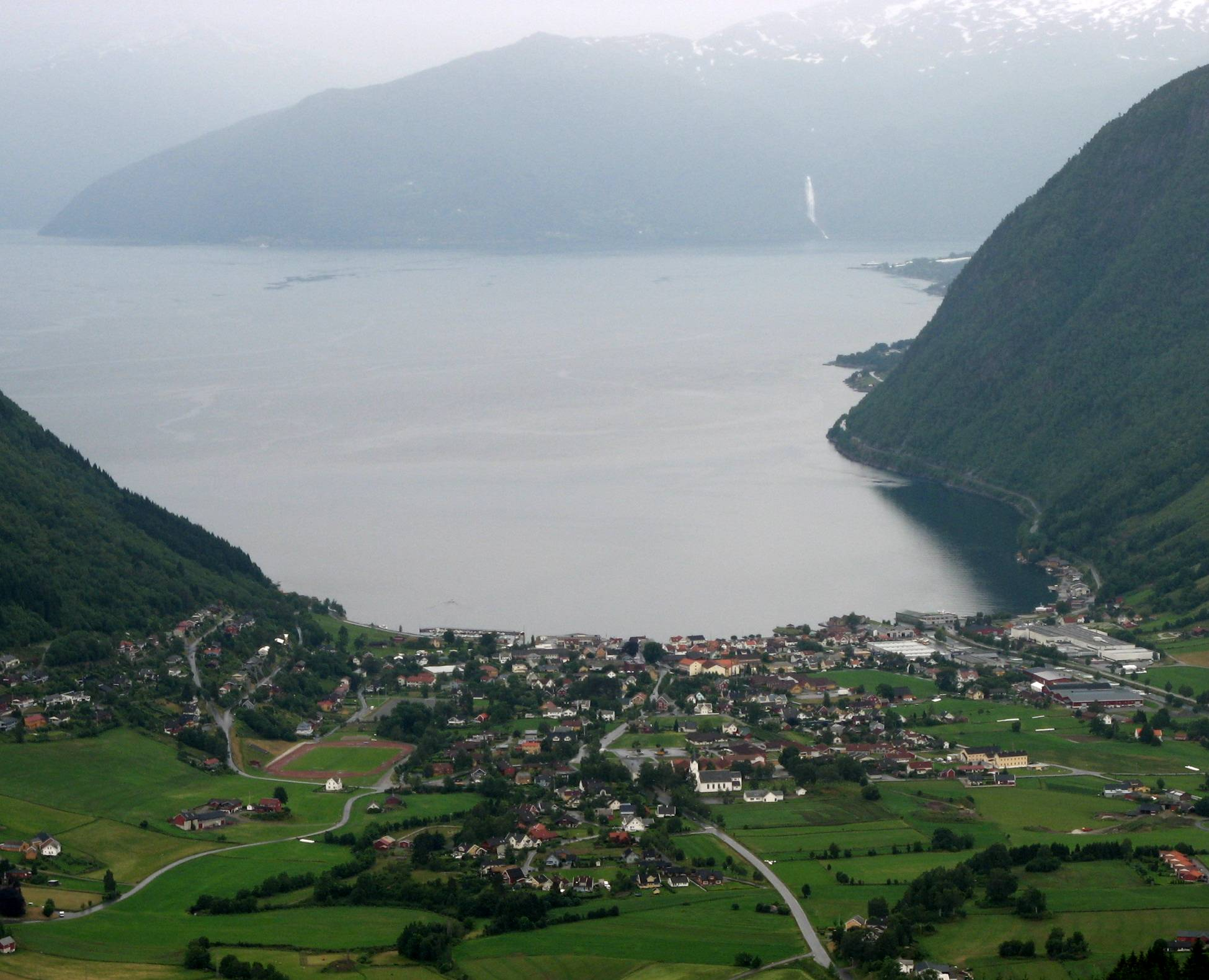 View of Vik. Taken in the Sognefjord area of Norway, July 2007